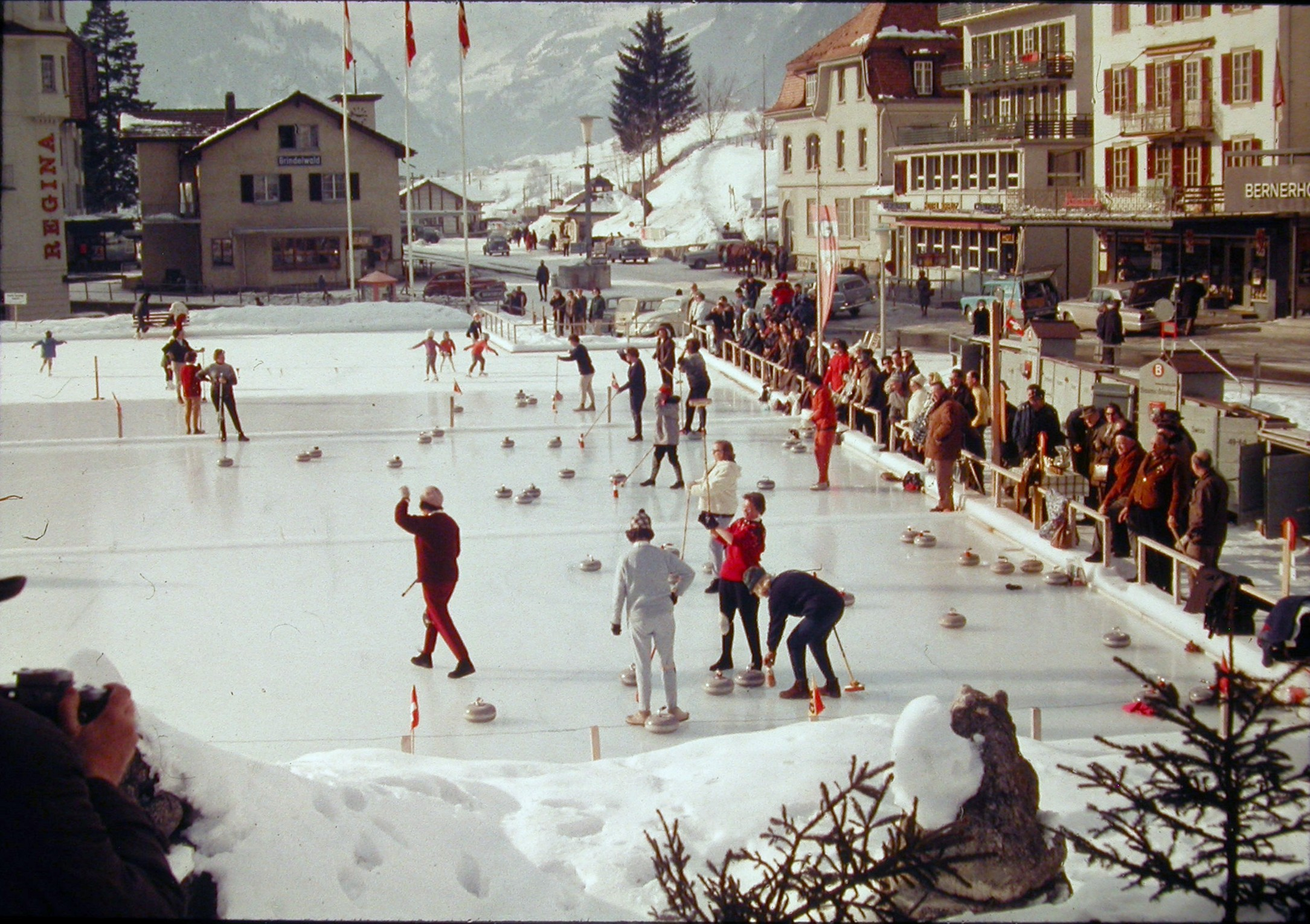 Curling tournament on the square just by the railway station in Grindelwald, now used as bus stop.